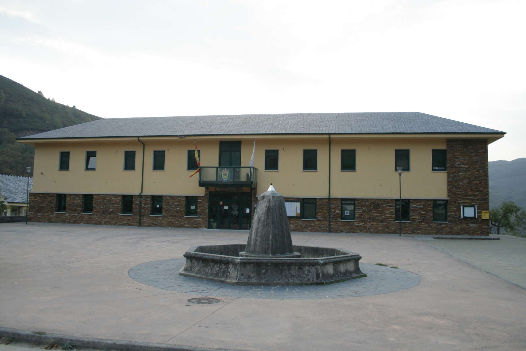 Town Hall in Folgoso do Courel (Spain)